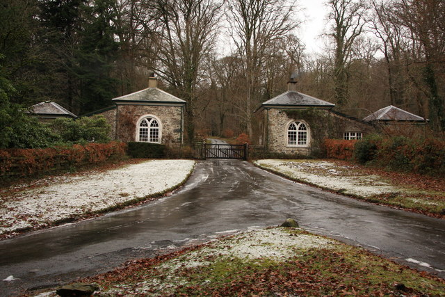 Spitchwick Lower Lodge The drive leads up through Park Wood to Spitchwick Manor.